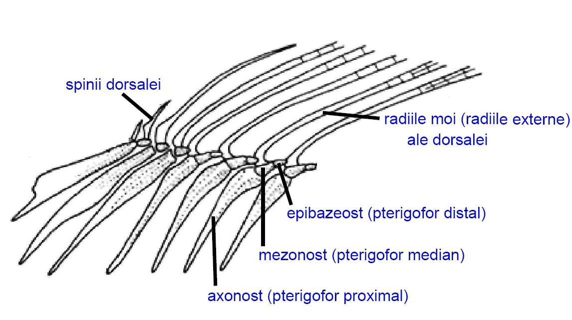 Dorsal fin pterygiophore